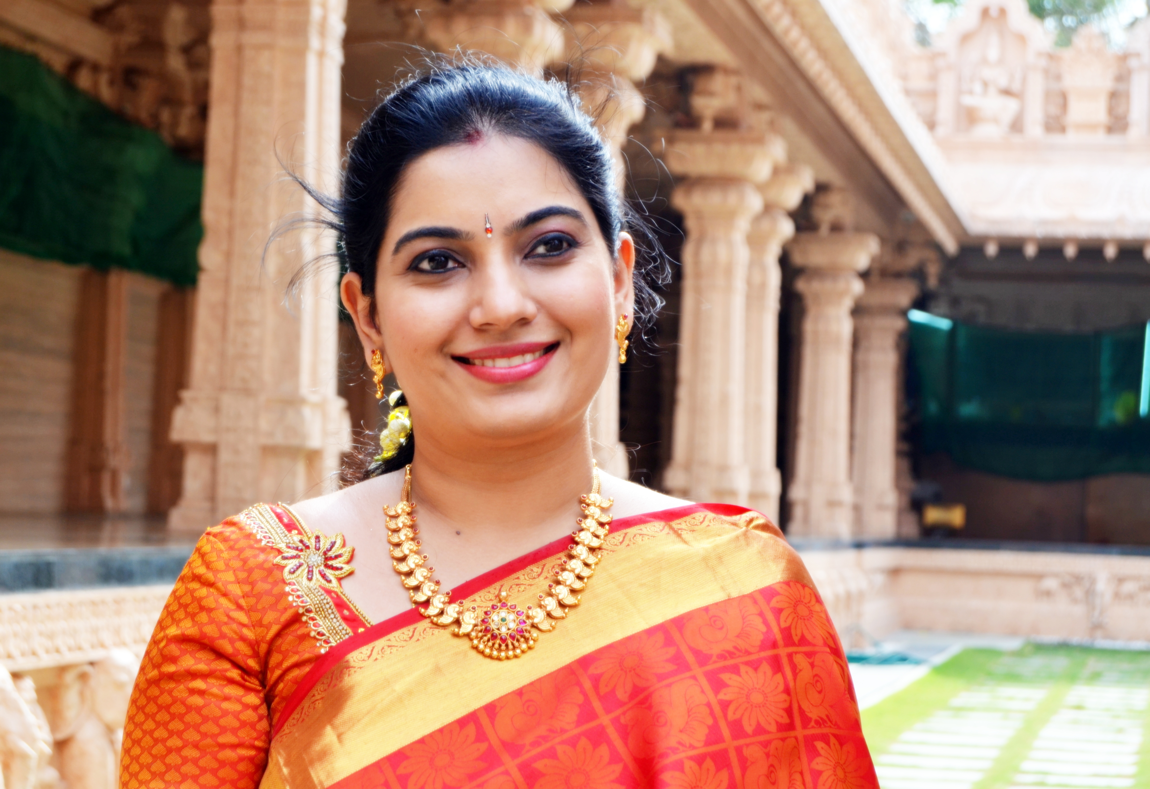 Mahanadhi Dr. Shobana Vignesh in one of her performances